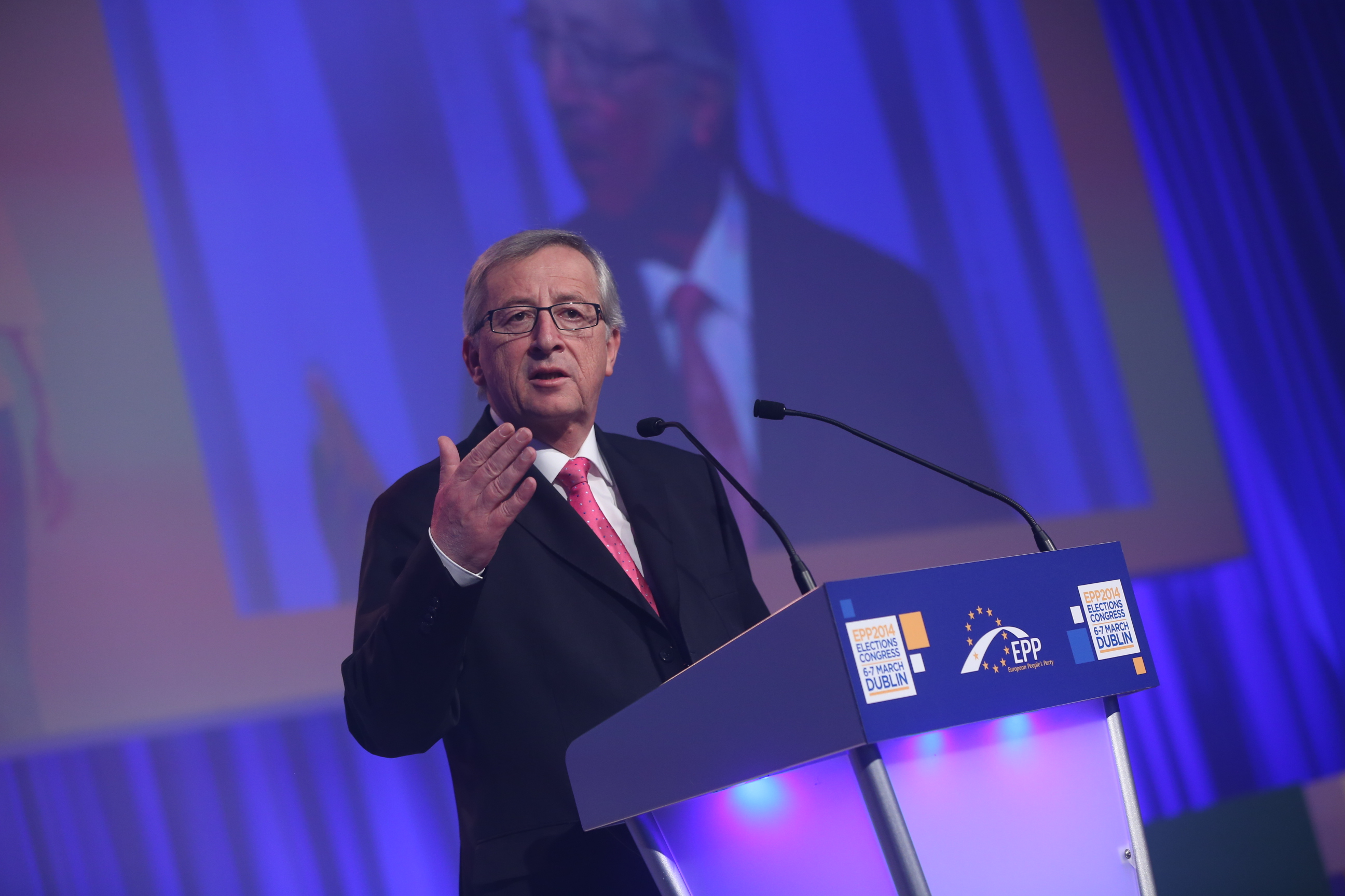 EPP Dublin Congress, 2014